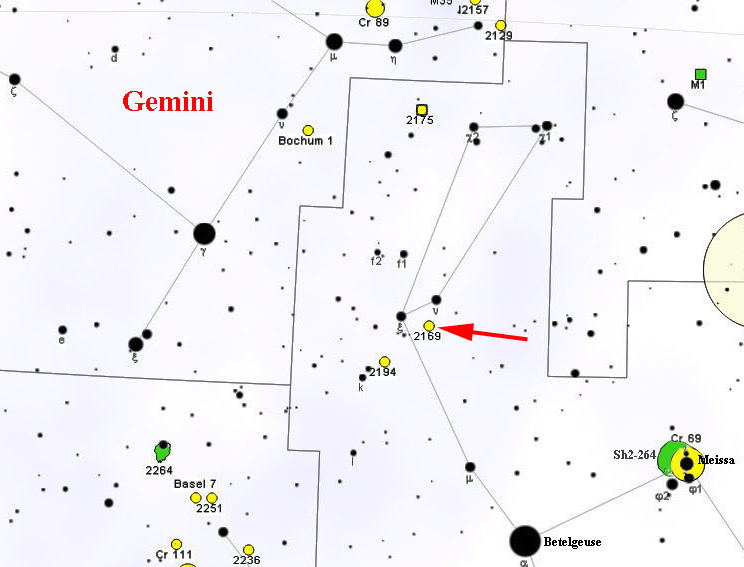 Map of NGC 2169